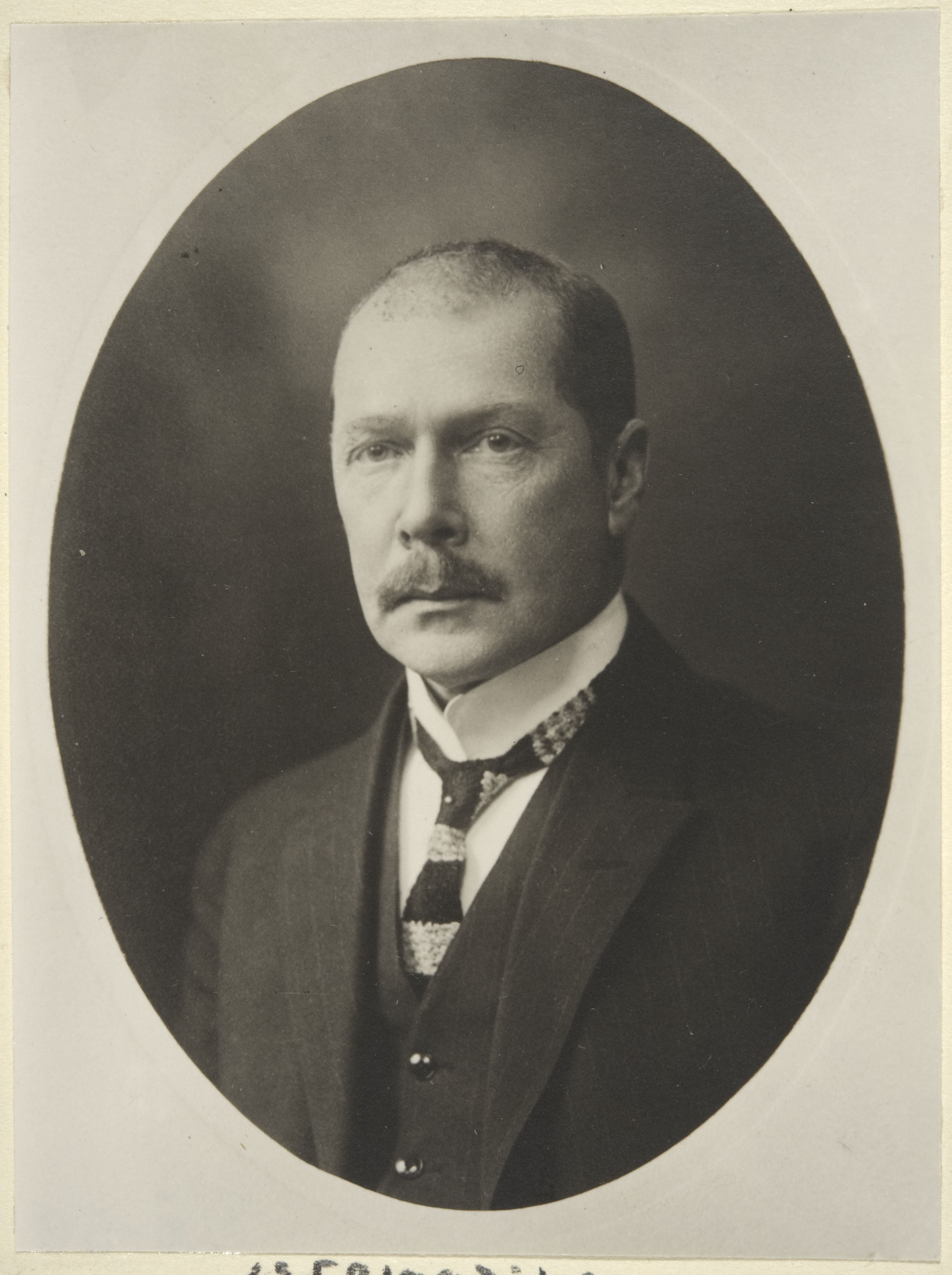 Photograph of the Finnish linguist Dr. Hugo Suolahti (1874–1944).